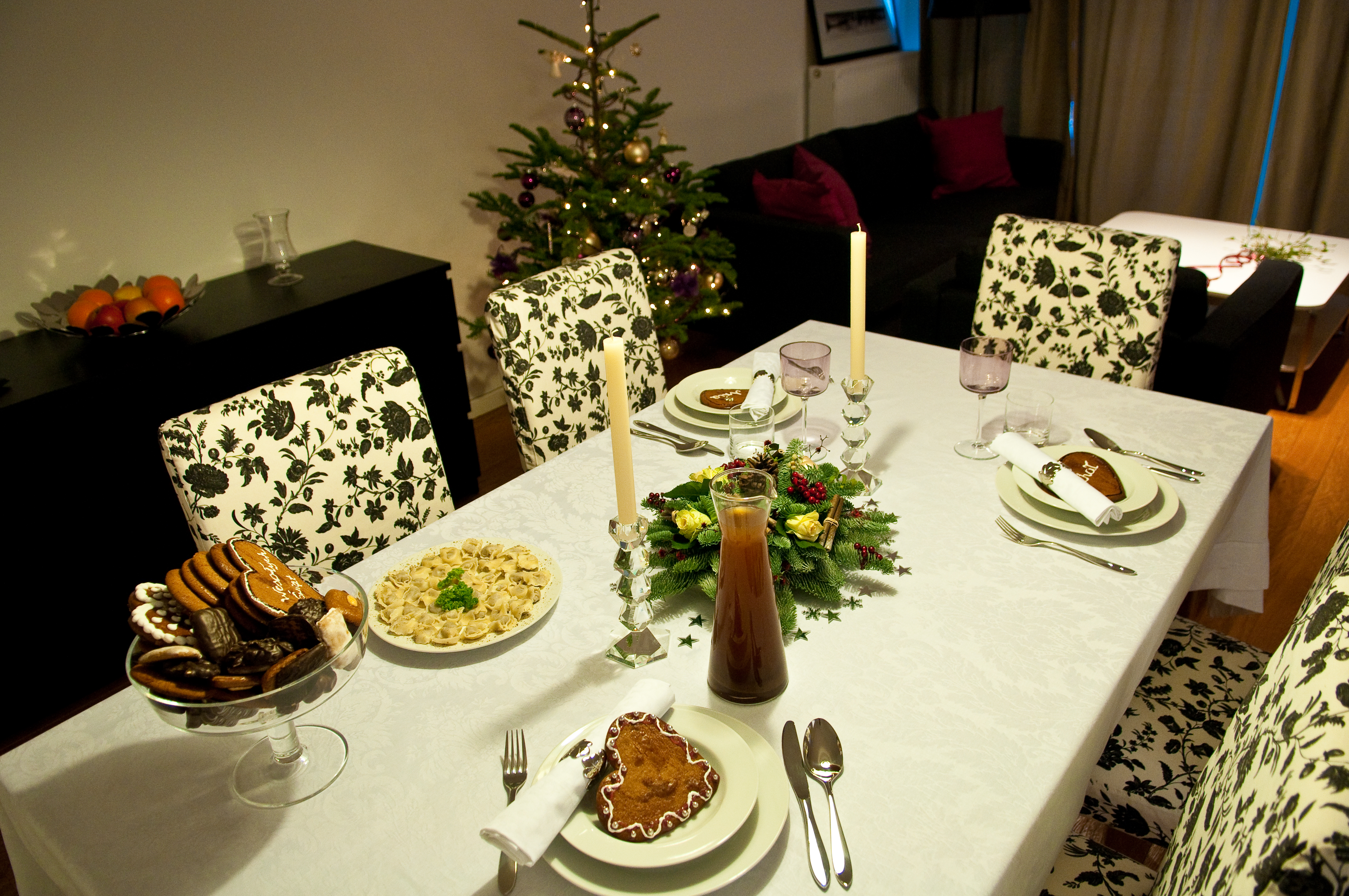 Christmas dinner is almost ready